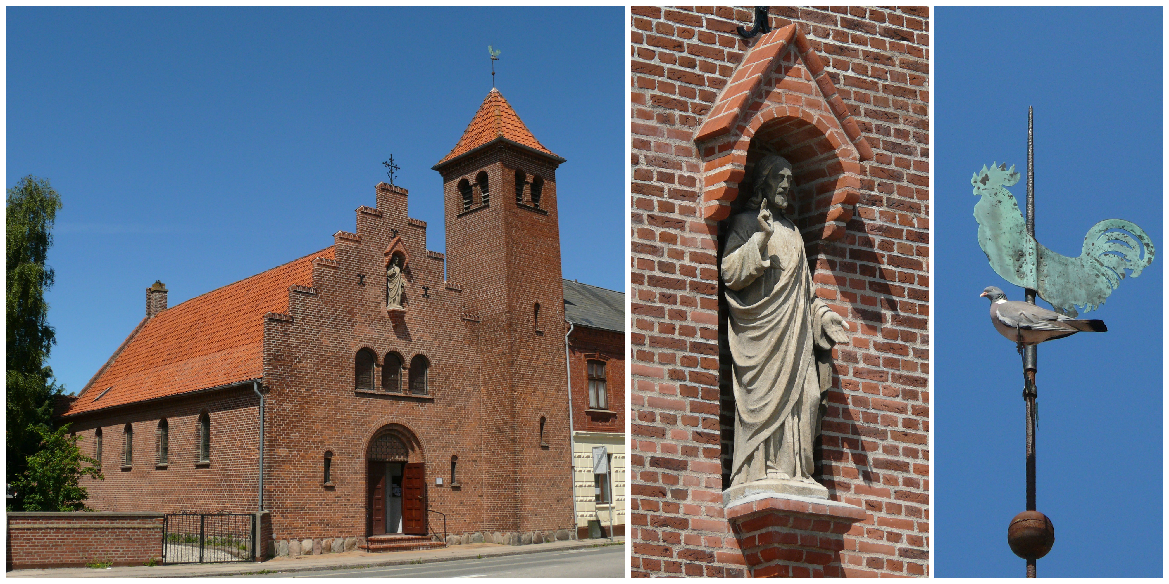 The Church of Our Saviour in Assens on the island of Funen (Denmark) is located on Noerregade 3.